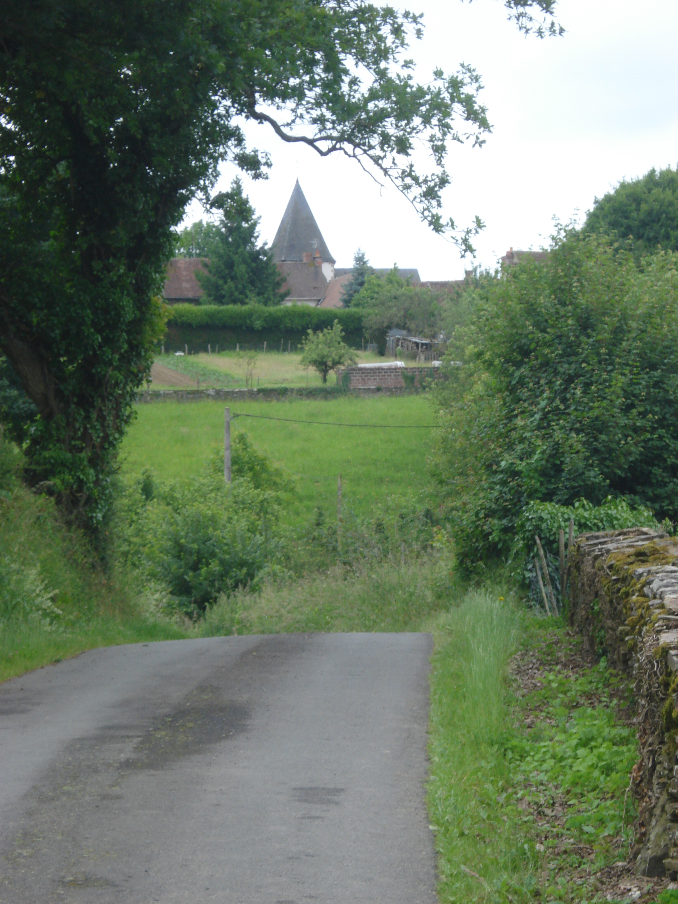 Cuzion, a small village in Indre, Fr. not far from Gargilesse